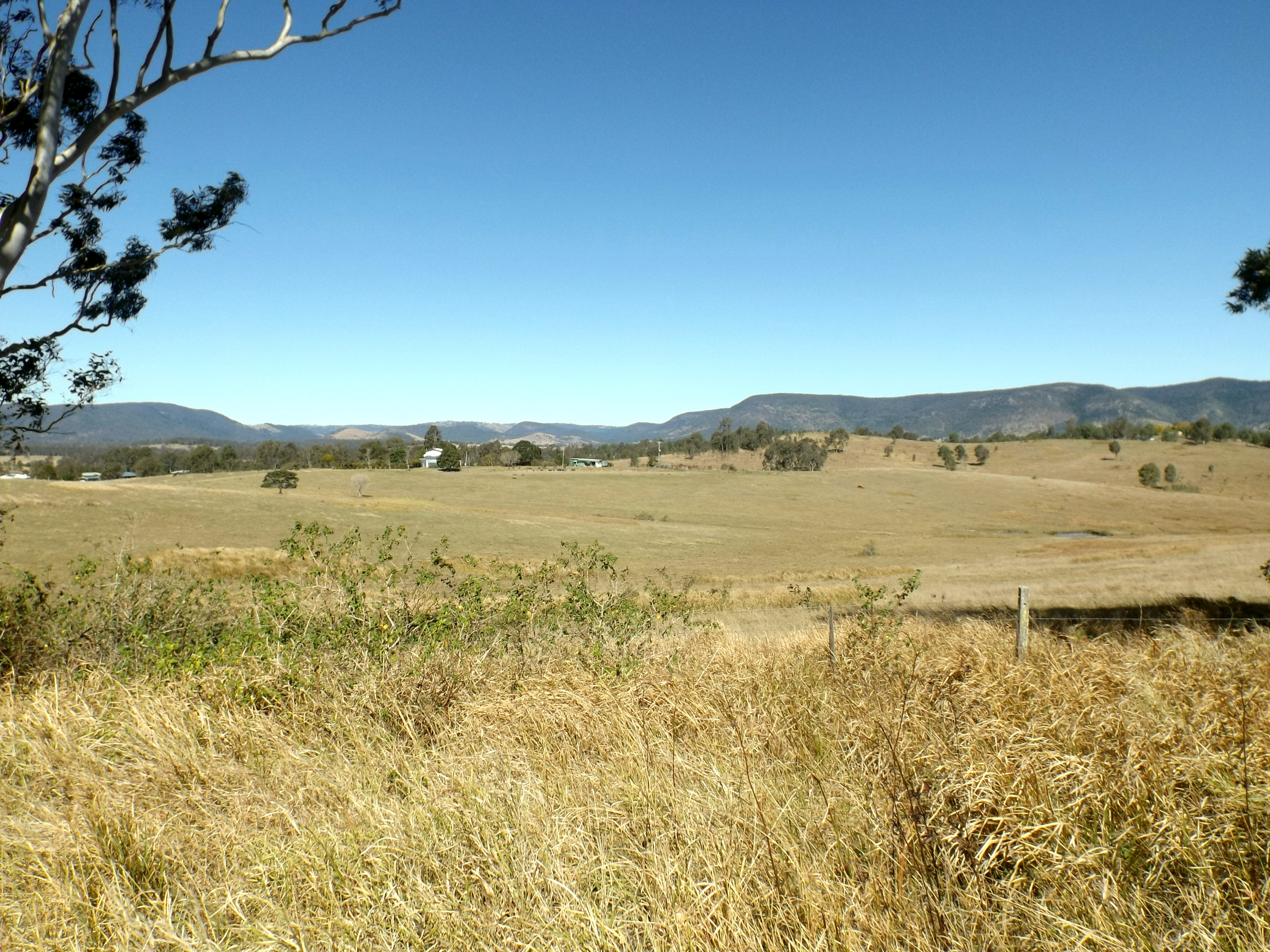 Photo of paddocks along Mount Mary Smokes Road at Royston, Somerset Region, Queensland, Australia.